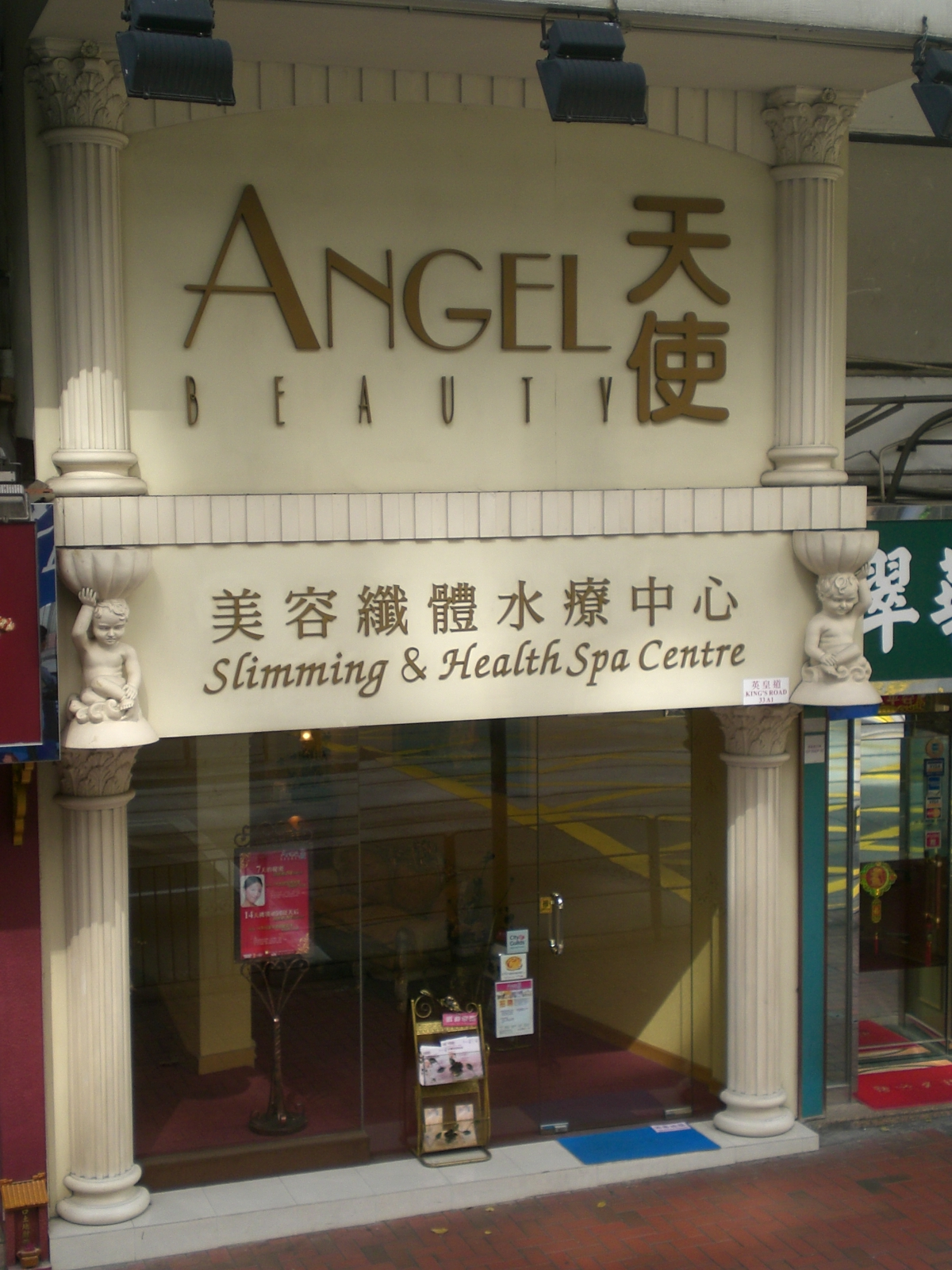 天使化妝品, 英皇道近天后zh:琉璃街